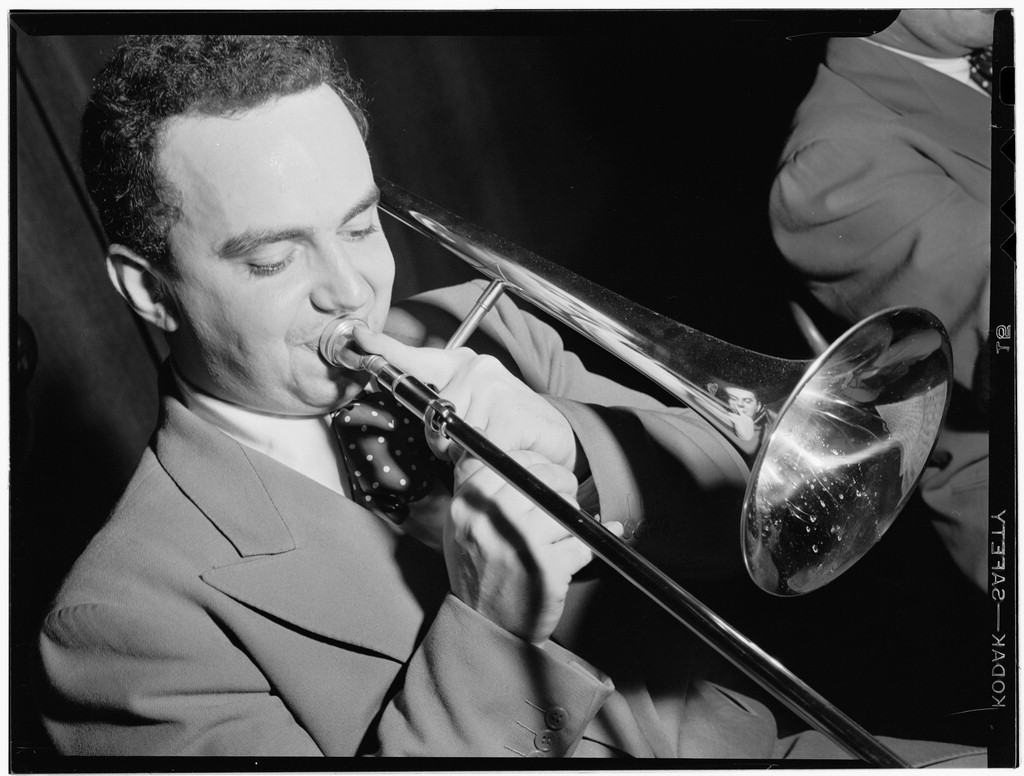 Milt Bernhart, 1947 or 1948 (Photograph by William P. Gottlieb)